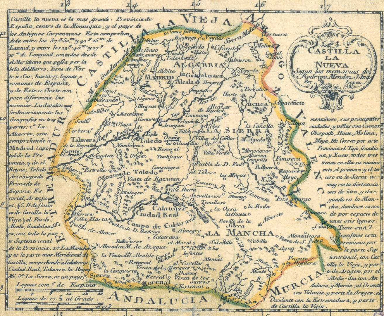 Map of New Castile by Tomás López